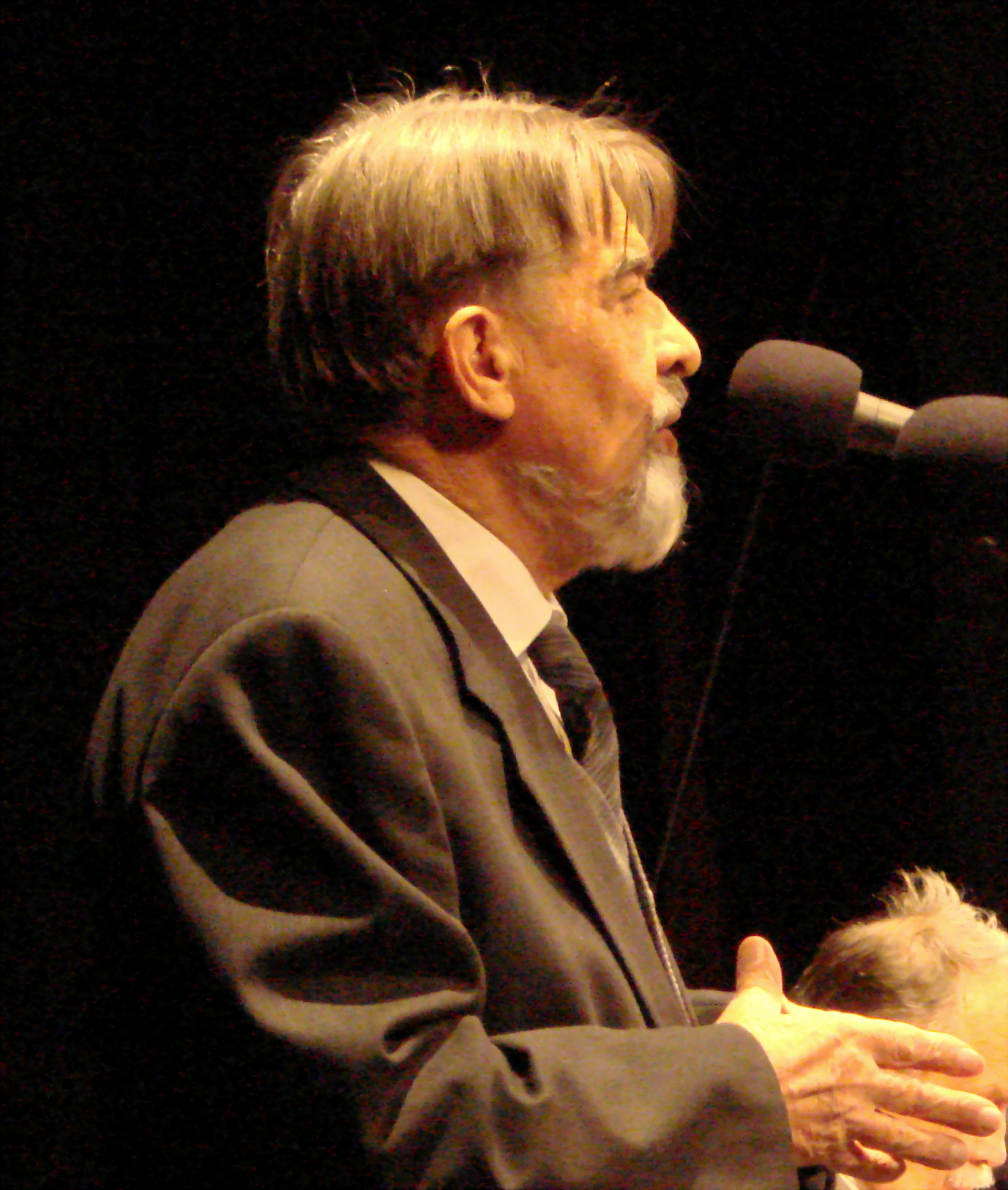 Ciril Zlobec at the slavistic congress in Trieste (date: October 18th 2007).